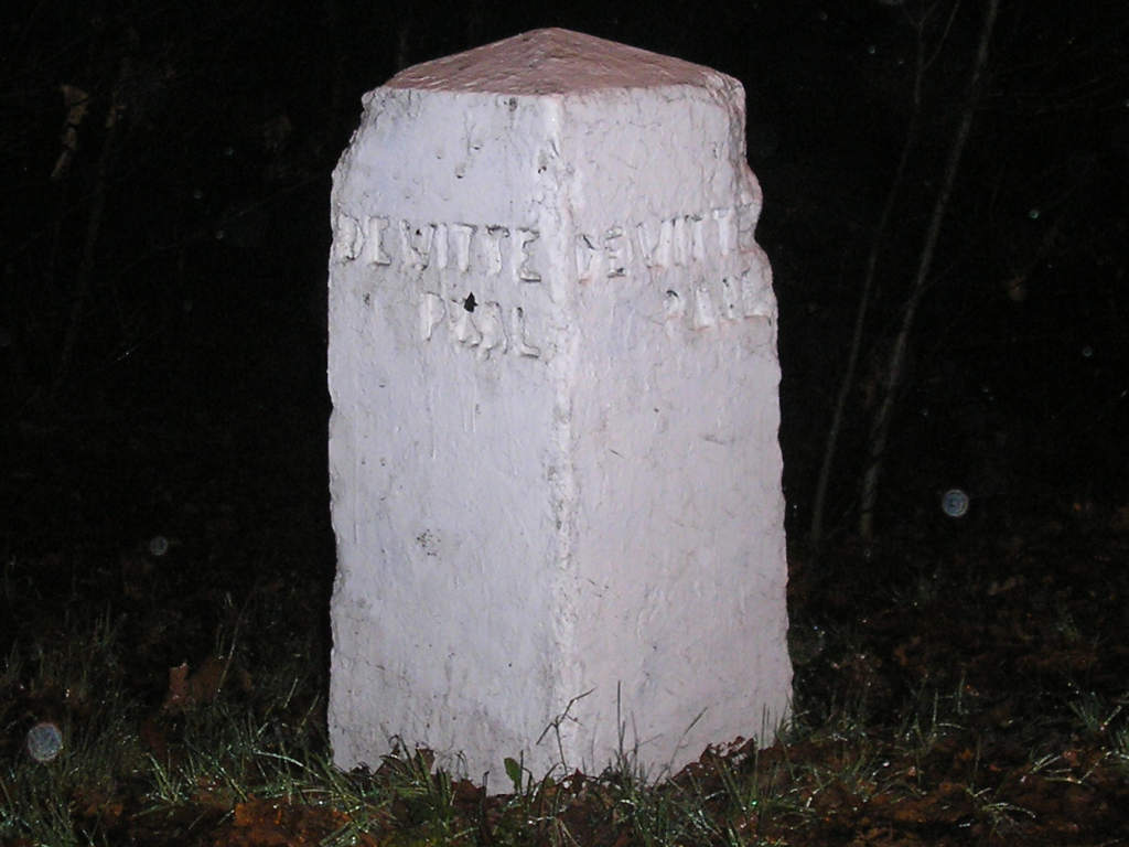 De Witte Paal; well known landmark on the Dutch N34. Rainy nightphoto; Location: N34 and N36, Overijssel, Netherlands